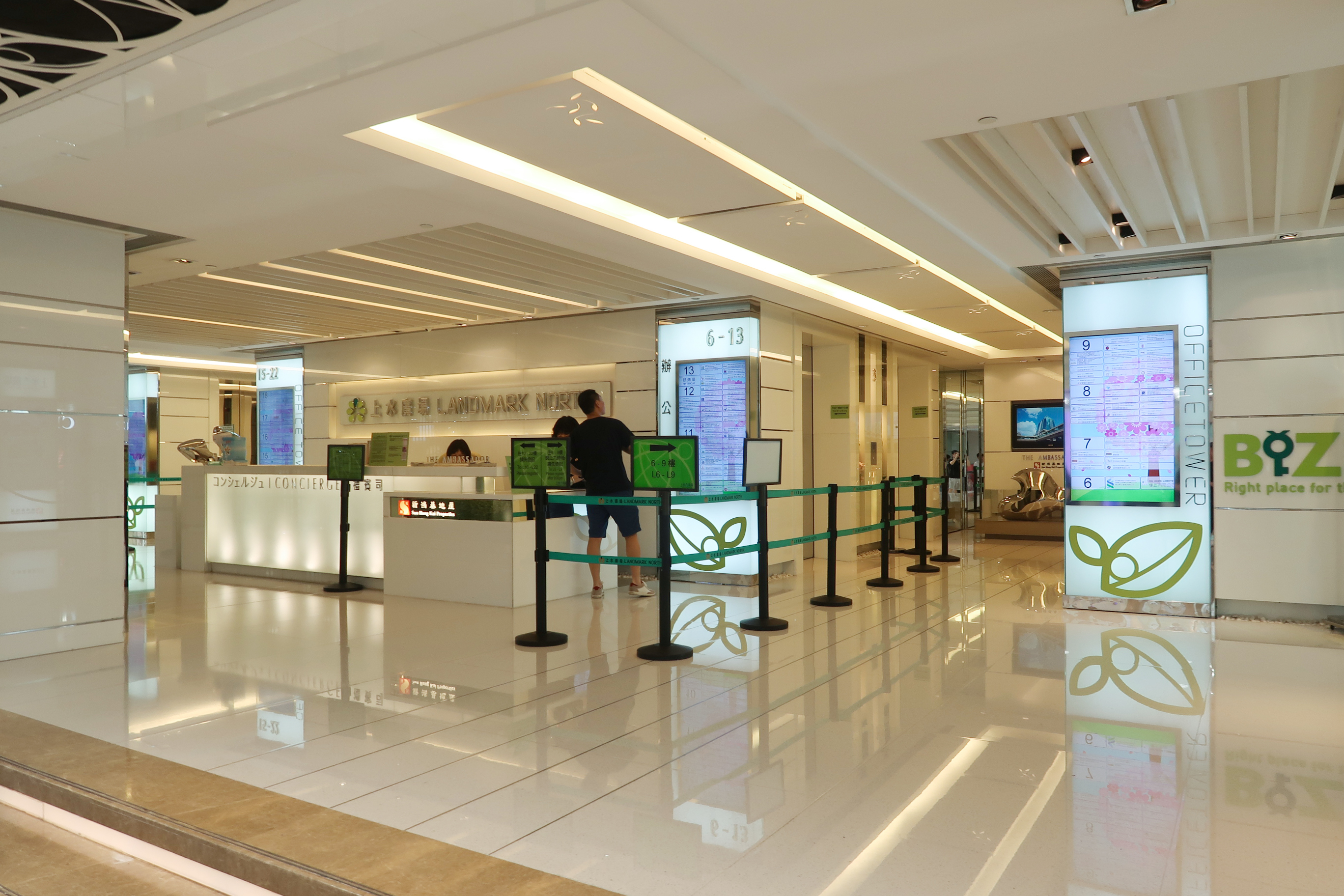 Landmark North L3_office_lobby